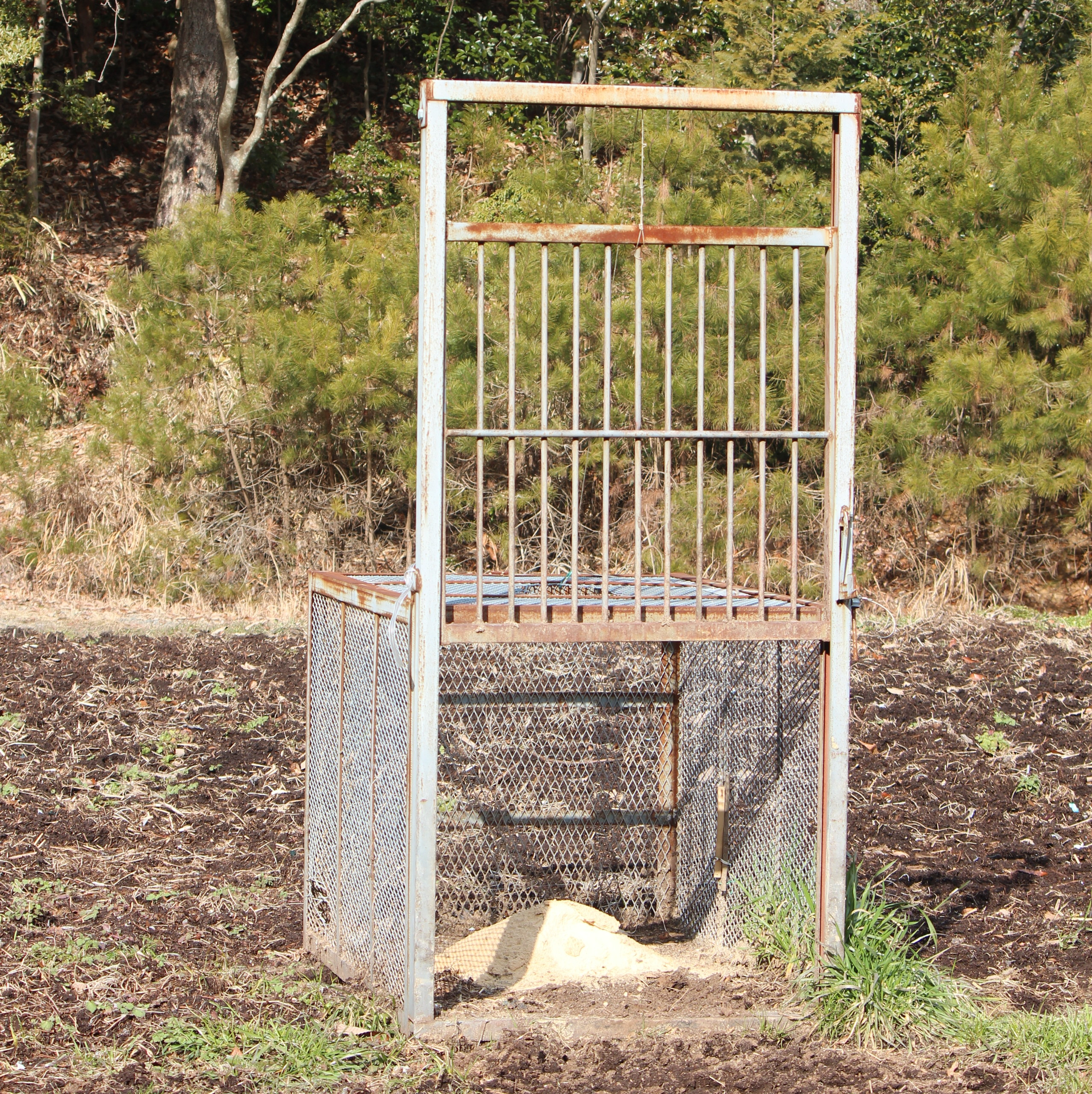 Trap for Vermin in field, Japan.